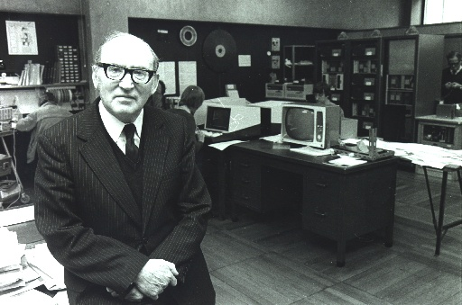 M.V. Wilkes retirement, July 1980, Titan Room